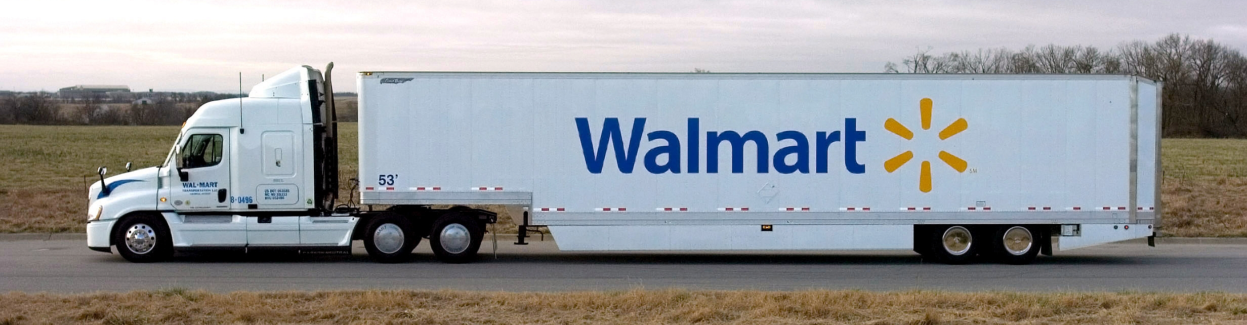 Fifteen trucks operating in the Buckeye, Arizona distribution center near Phoenix, will be converted to run on reclaimed grease (FuelTM), made with the waste brown cooking grease from Walmart stores.